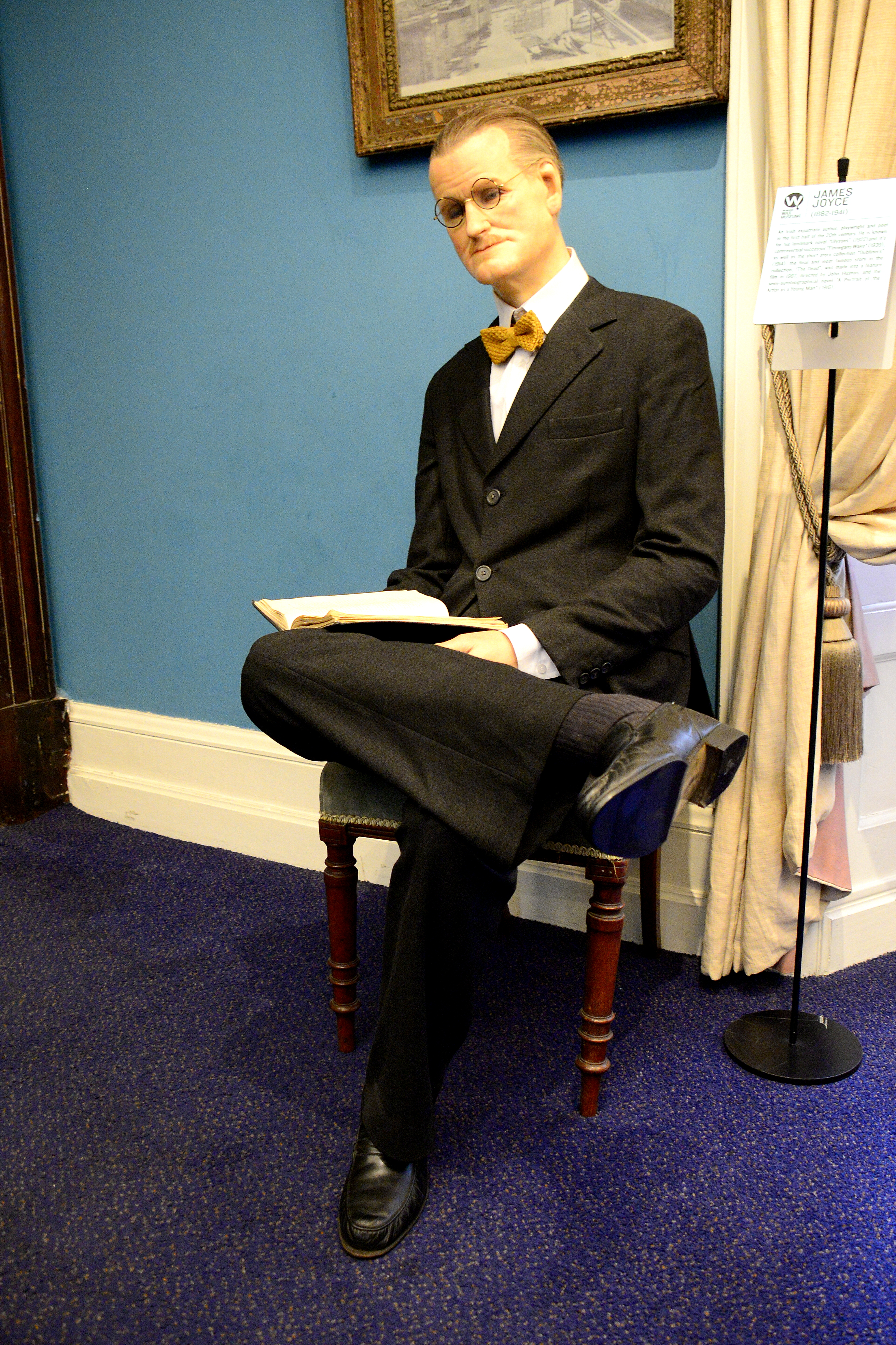 Wax figure of James Joyce at the National Wax Plus Museum, Dublin, Ireland.